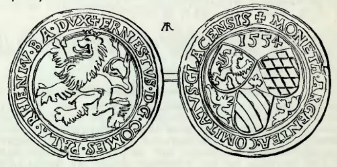 Taler Glacensis 1554